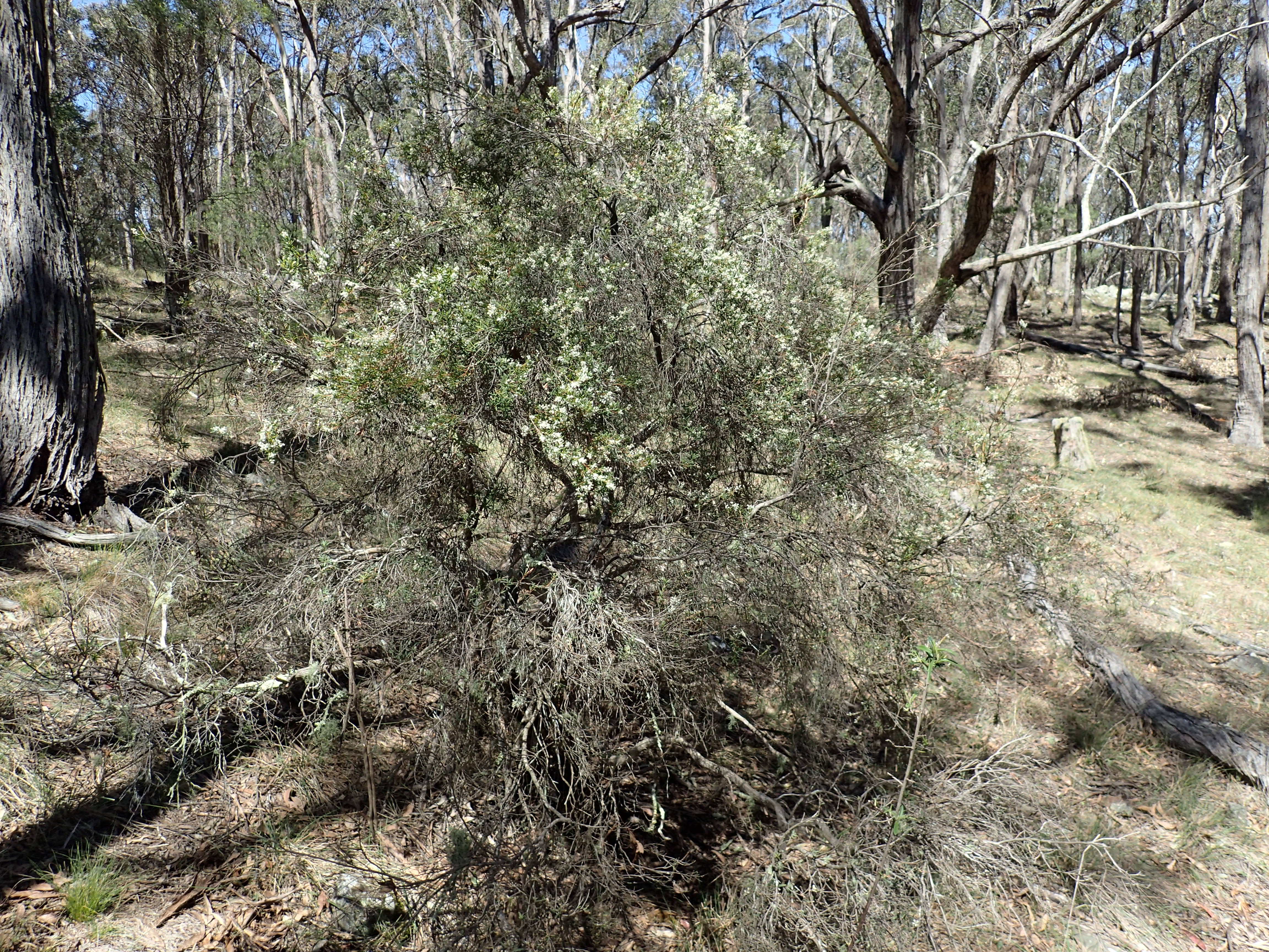 Leucopogon lanceolatus growing near Wollomombi Falls in the Oxley Wild Rivers National Park